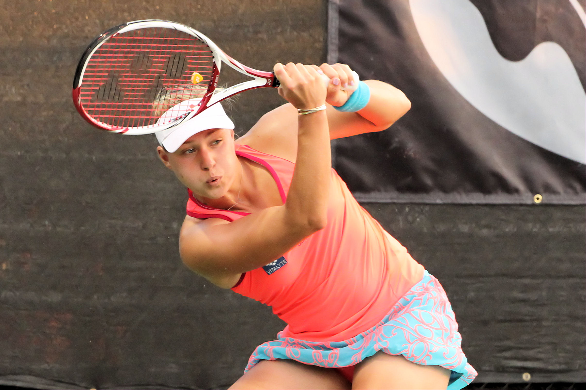 Angelique Kerber at the 2011 Texas Tennis Open